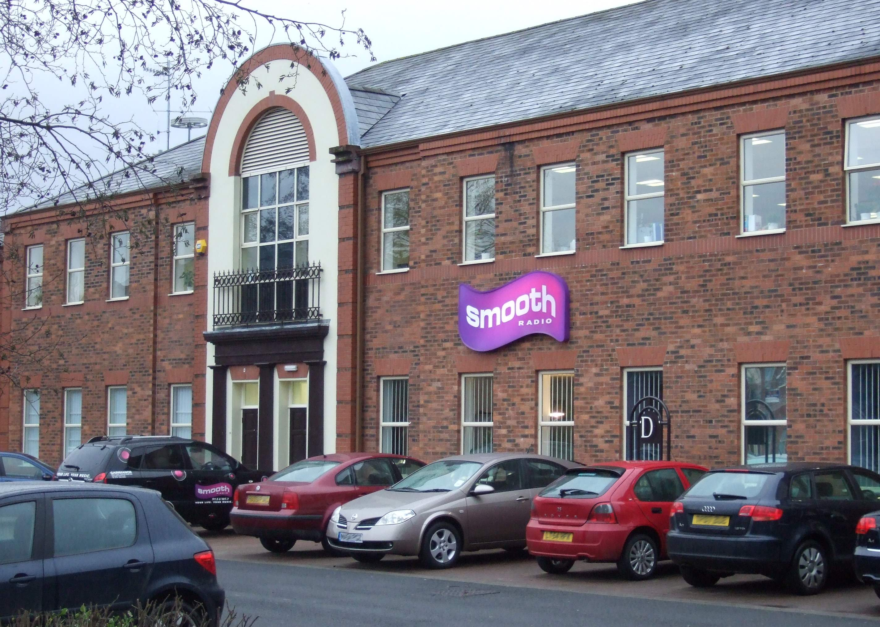 The studios of 97.5 Smooth Radio in Gateshead, Tyne and Wear. The complex also hosts Real Radio (North East) and Rock Radio (North East).